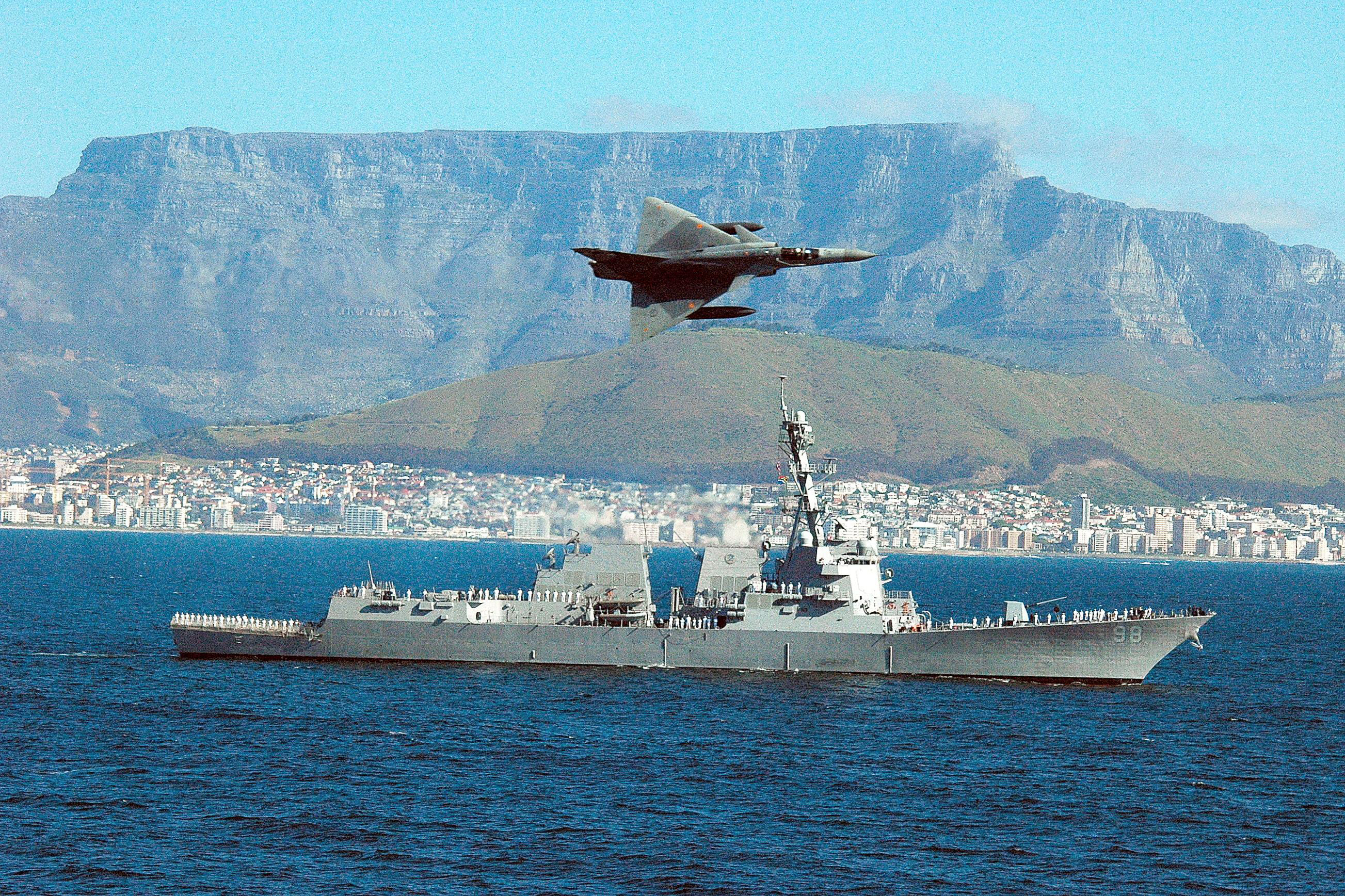 071005-N-3255B-002 CAPE TOWN, South Africa - A South African Air Force Cheetah fighter jet flies over guided-missile destroyer USS Forrest Sherman (DDG 98) as the ship departs after participating in the Southeast Africa Task Group 60.5's first deployment to the region. Forrest Sherman collaborated with the jet and other South African navy ships and aircraft during a four-day military exercise held off the coast of South Africa. The destroyer is operating in support of maritime security and safety operations in West Africa.